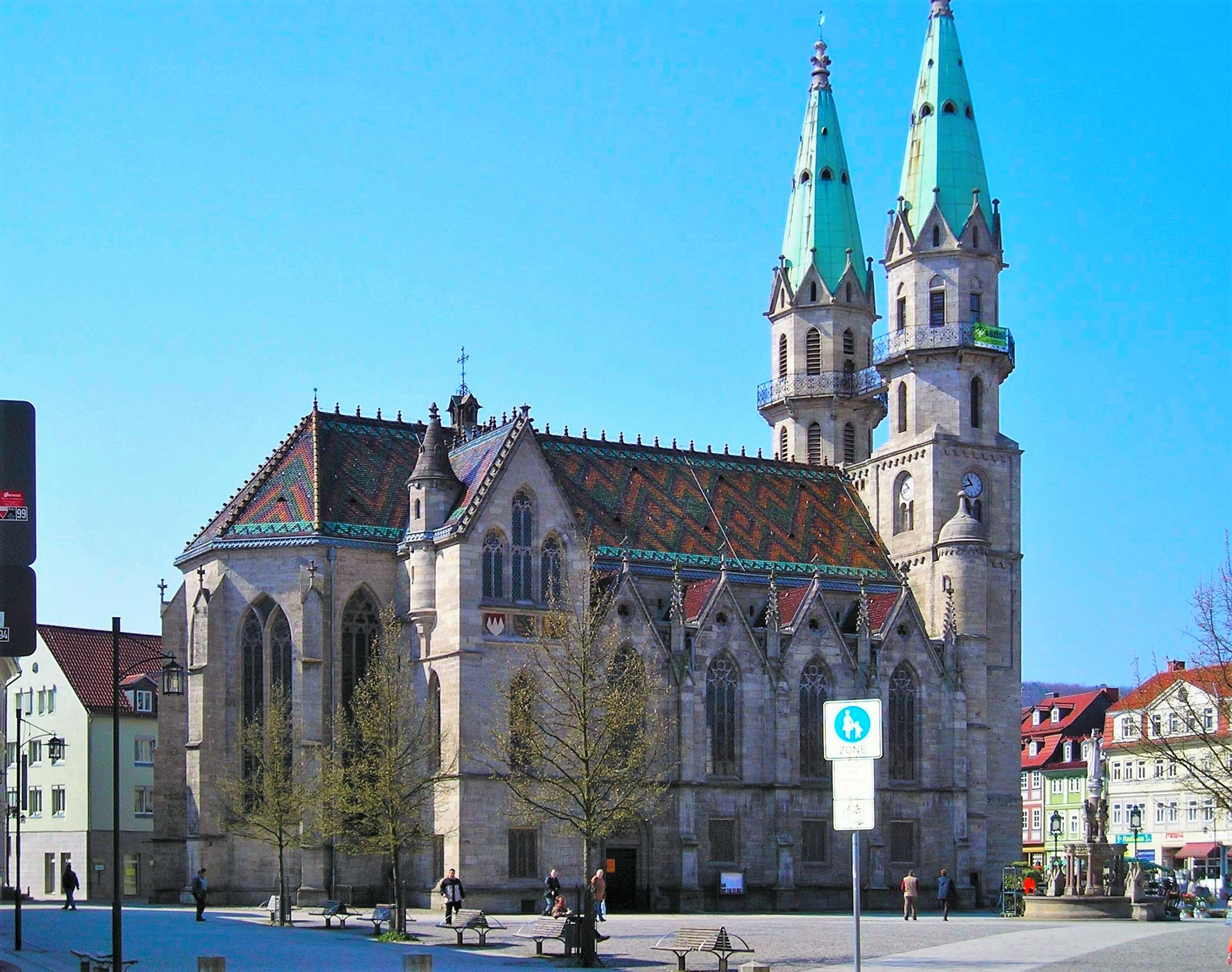 Church in the city Meiningen